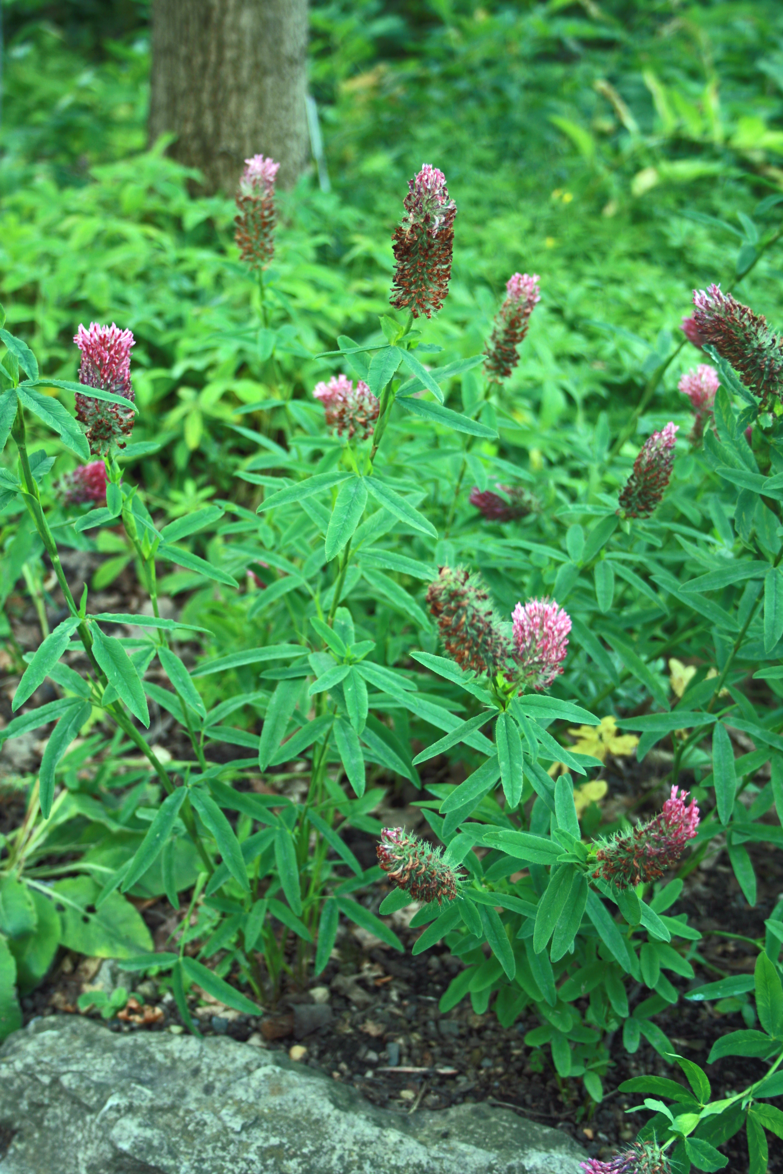 Trifolium rubens from Botanical Garden of Charles University in Prague, Czech Republic